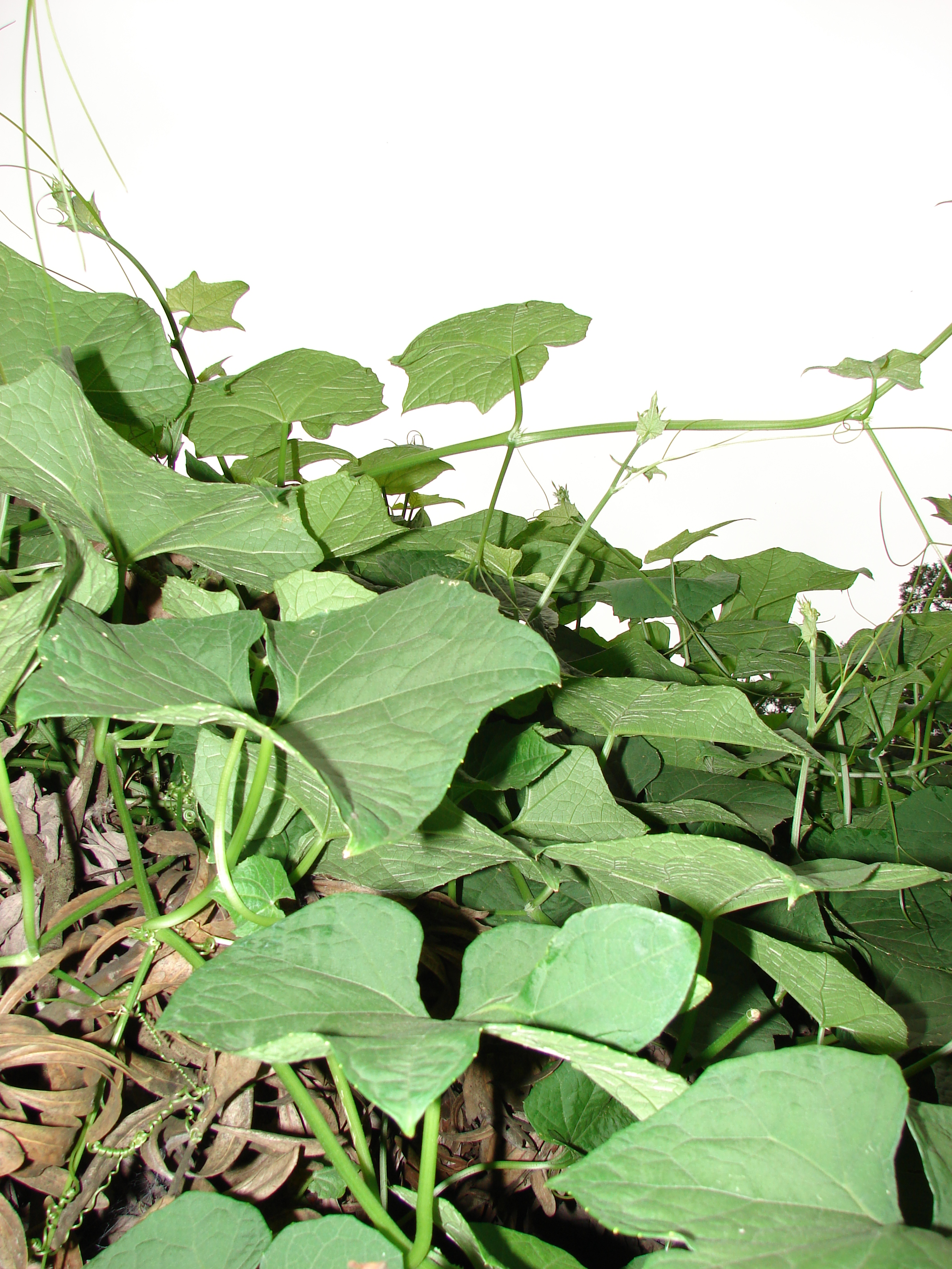 Sechium edule (leaves). Location: Maui, Kula